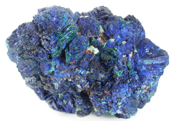 Azurite, Malachite Locality: Tongshankou Mine (Tongchankou Mine), Edong Mining District, Daye County, Huangshi Prefecture, Hubei Province, China (Locality at ) Size: 6.8 x 5.2 x 3.5 cm. Highly lustrous, royal-blue to midnight-blue aggregates of azurite blades form a very showy, elongated, azurite "rose" from recent Chinese finds. This fine piece is a complete-all-around floater and is essentially pristine. Scattered bits of malachite (second photo) are a nice accent. Ex. Tarnowski Collection.